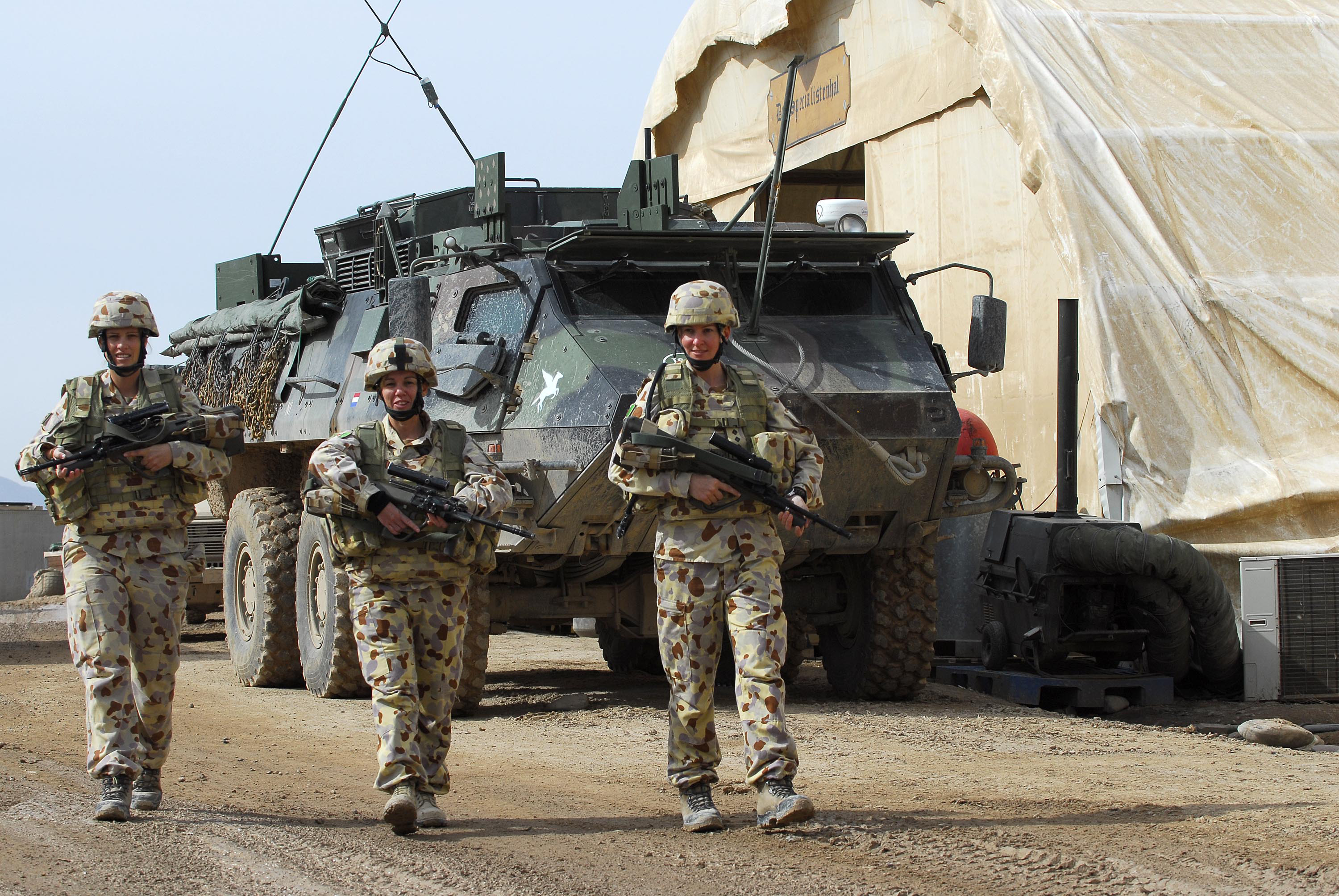 Women in Army, (L-R) Corporal Amanda Wright, Corporal Cindy Veenman and Captain Karin Cann are regulars outside the wire of Multinational Base Tarin Kowt. Women of the Australian military, police and civilian agencies deployed at the Multinational Base Tarin Kowt undertake a range of critical roles in support of Australia's joint agency approach in Uruzgan Province. Some of these roles include Afghan National Police development, health services, administrative support, community and political liaison, combat service and support, military transport driving, and security support. (Courtesy Australian Government Department of Defence)